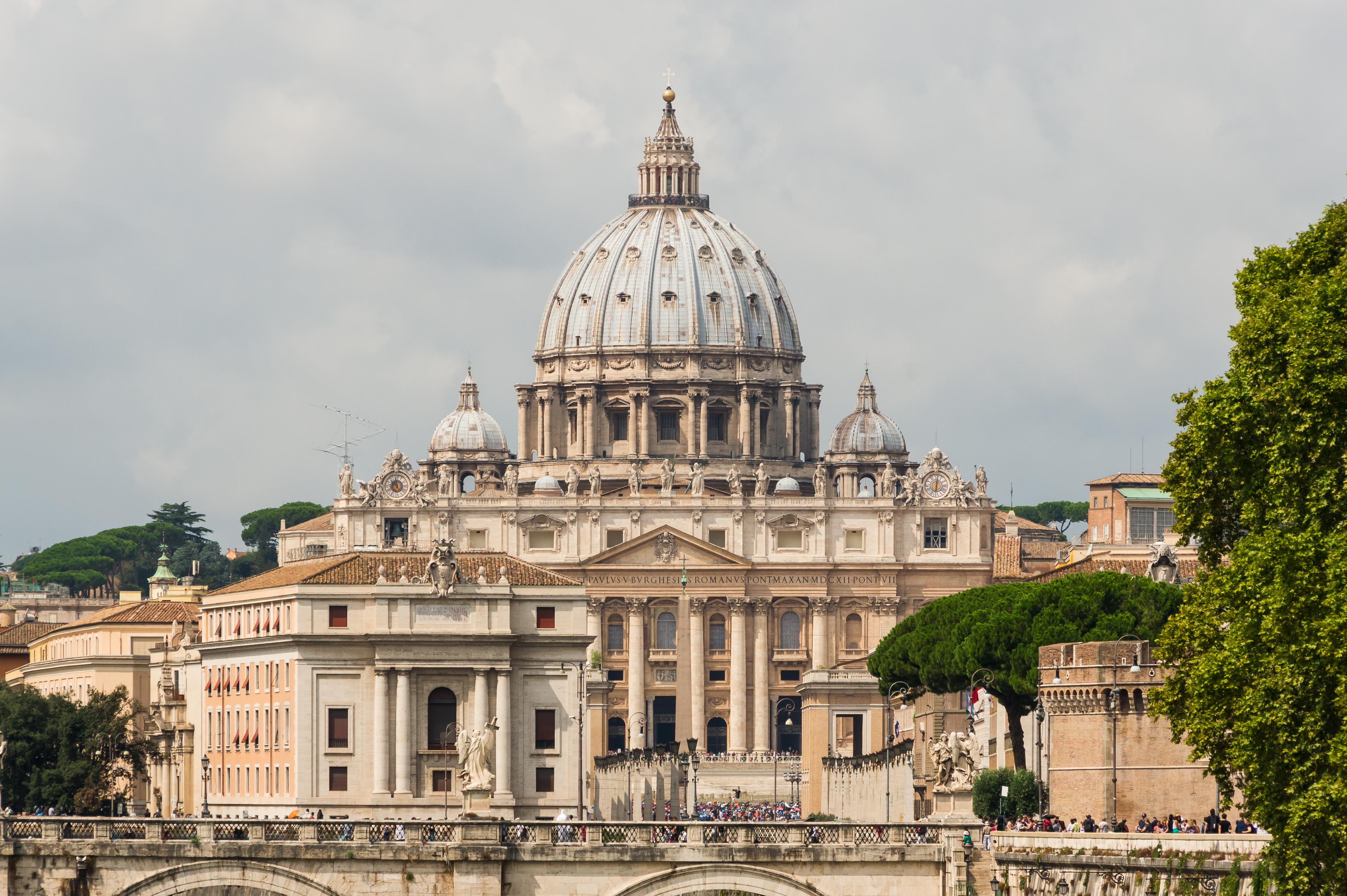 Facing Saint Peter's basilica, Rome, Italy, Vatican City.